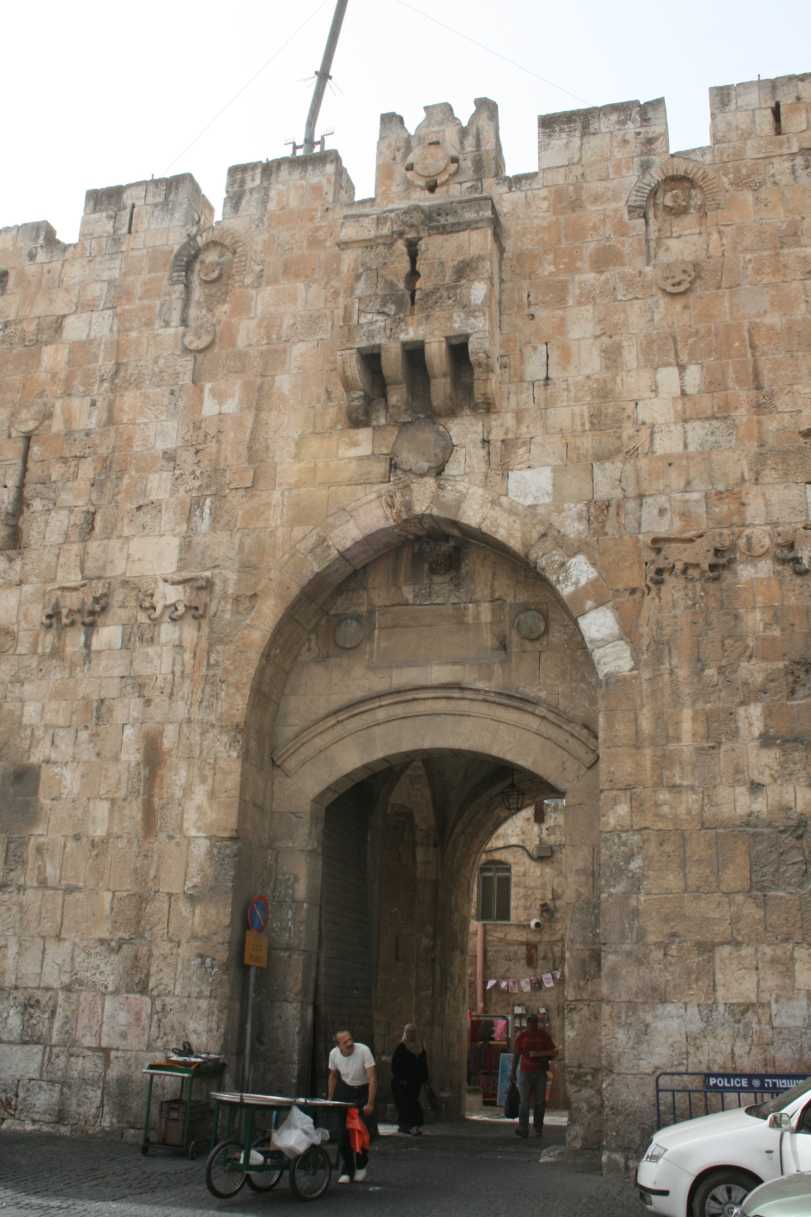 Lions' Gate of the Old City of Jerusalem